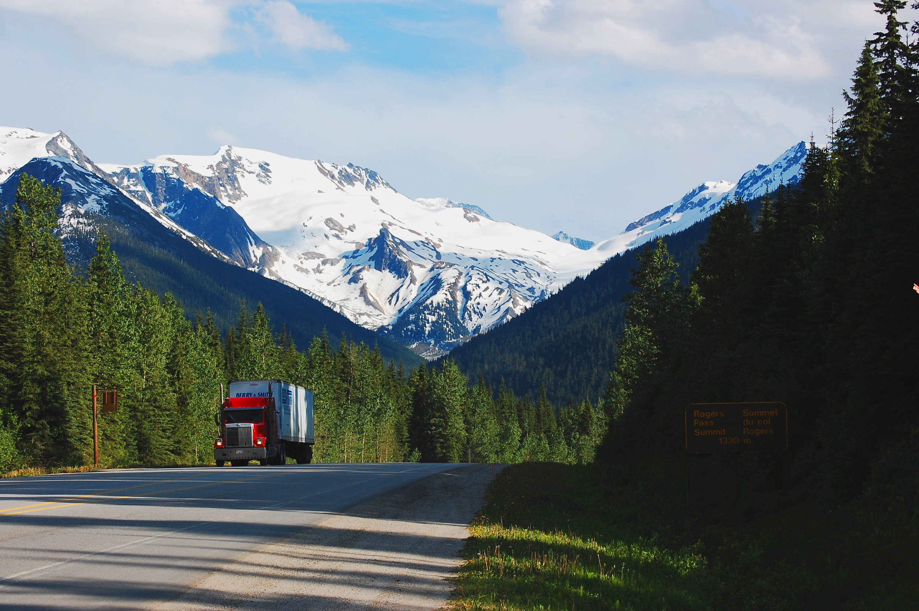 Rogers Pass south view